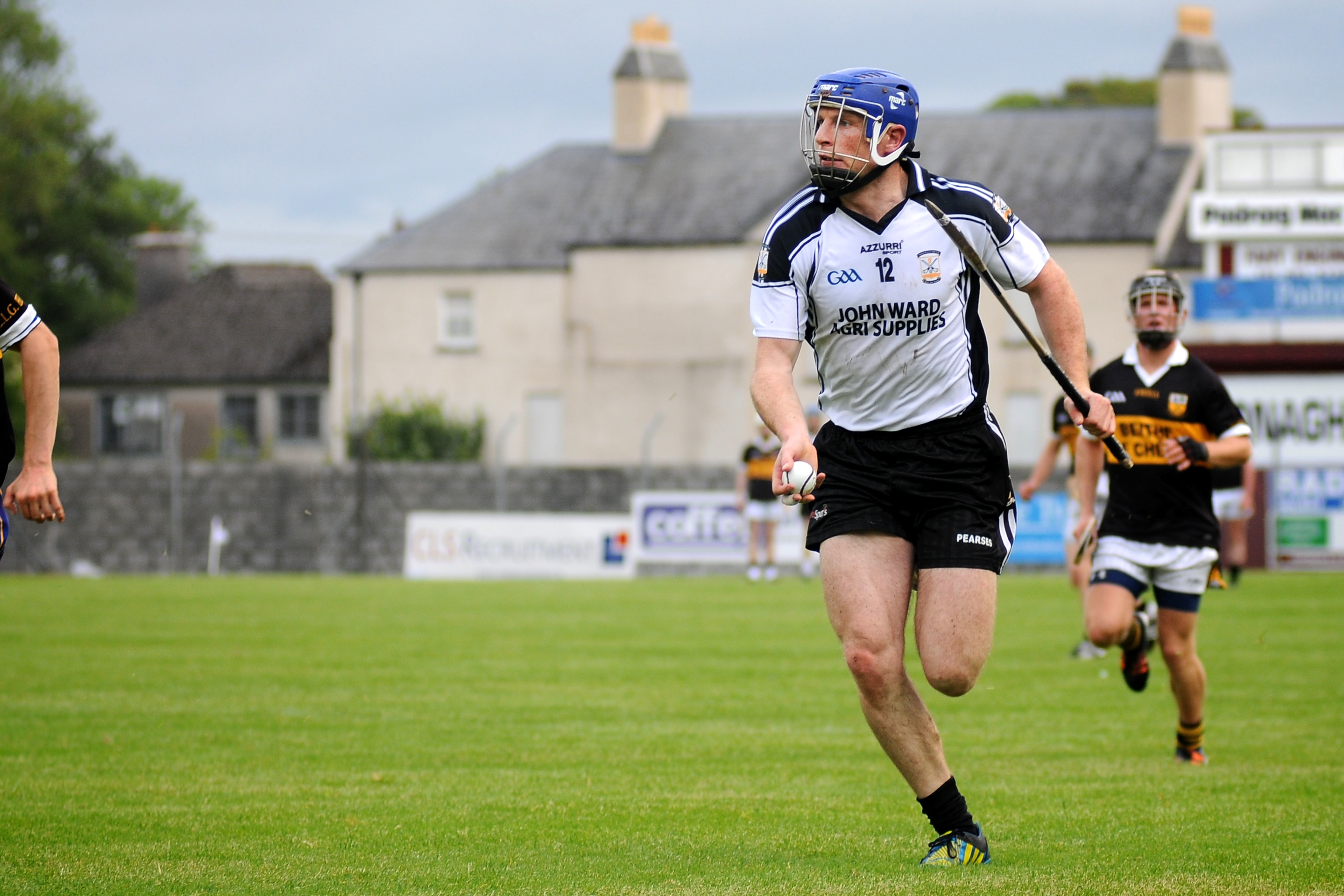 Cyril Donnellan in action for Pádraig Pearse's against Beagh in the 2013 Galway Senior Hurling Championship quarter final